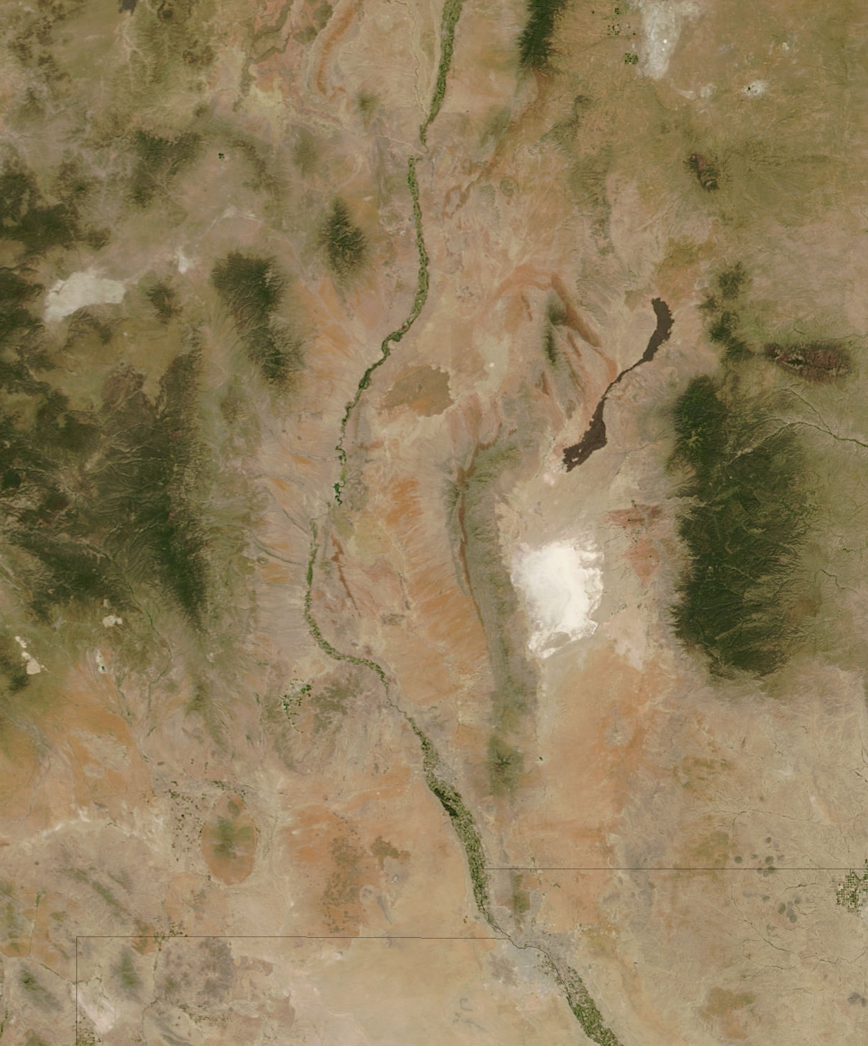 Satellite image of southern New Mexico, USA. The Image shows Rio Grande and the Jornada del Muerto, a historic wagon trail and the valley where the trail runs.